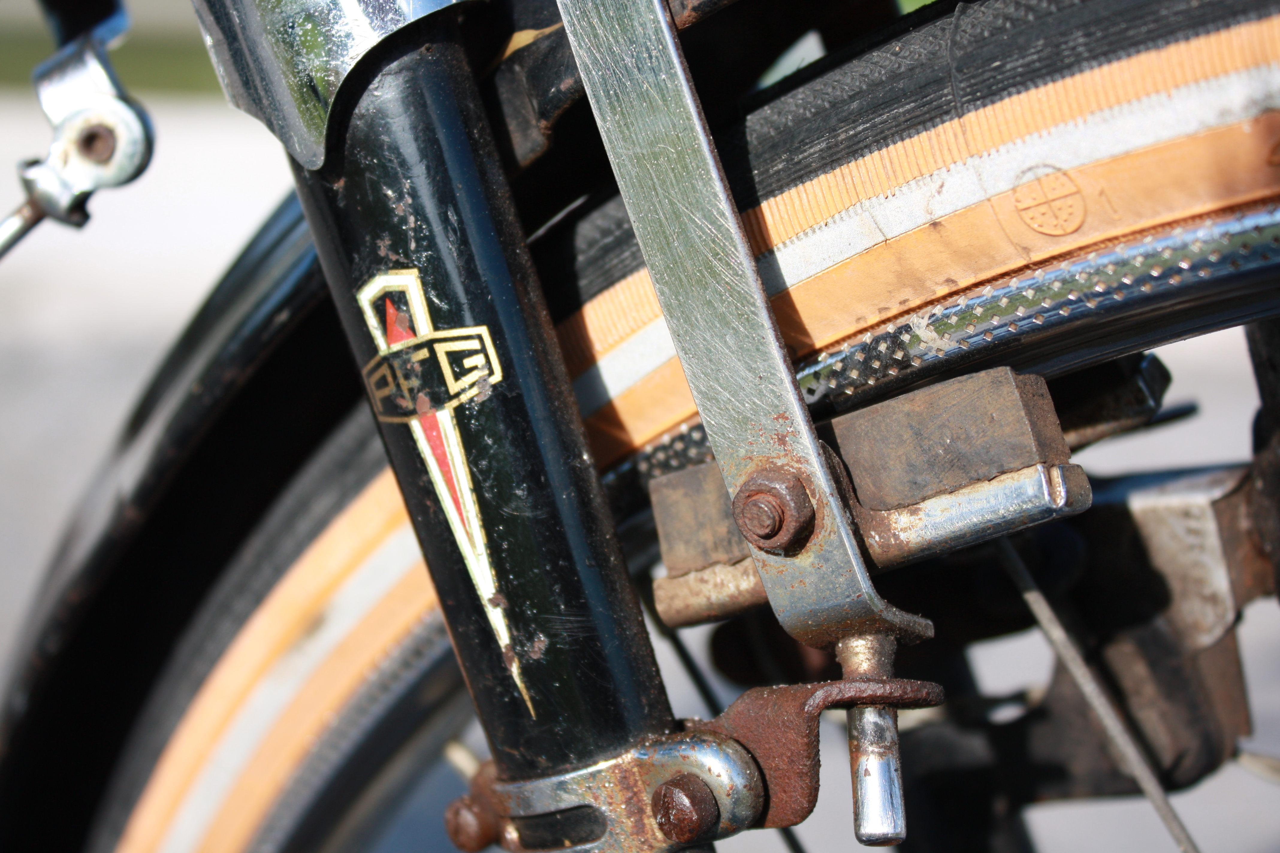 Fongers / Rod actuated brake and brake pad on a Westrick Rim.